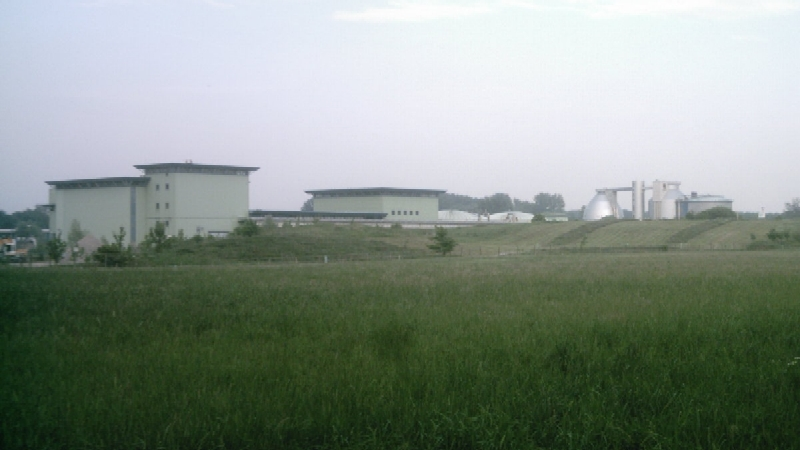 Purification plant in Donk, Neuwerk, Mönchengladbach, Germany